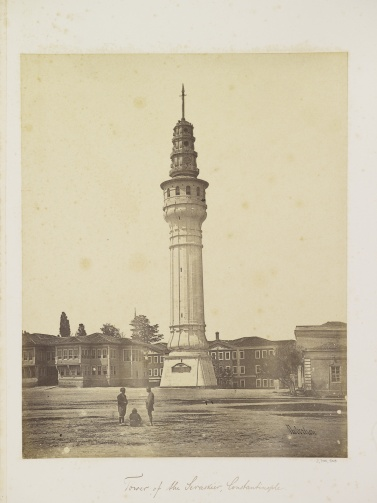 Beyazıt Tower 1855